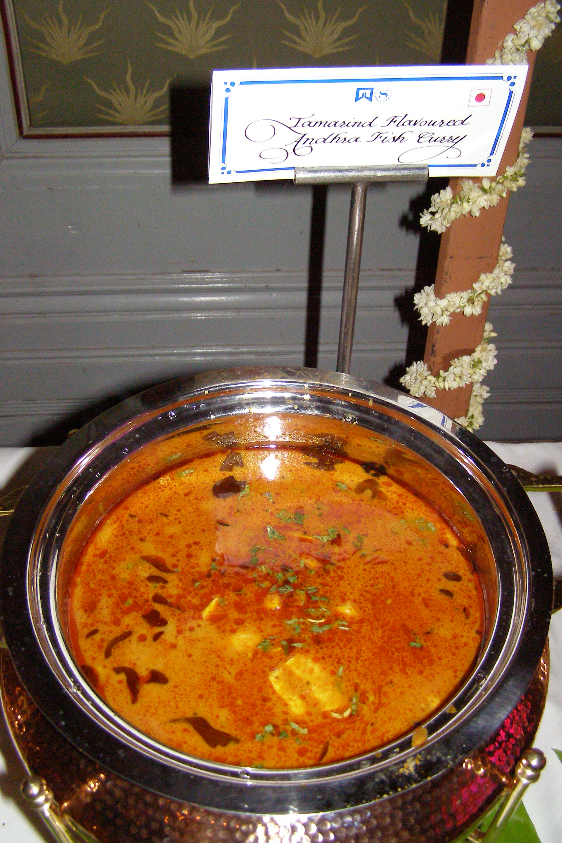 Tamarind Andhra Fish Curry, South Asian, South Indian Cuisine,Andhra Pradesh, Non-Vegetarian, New Delhi Sheraton Hotel Ballroom, 05 May 2007